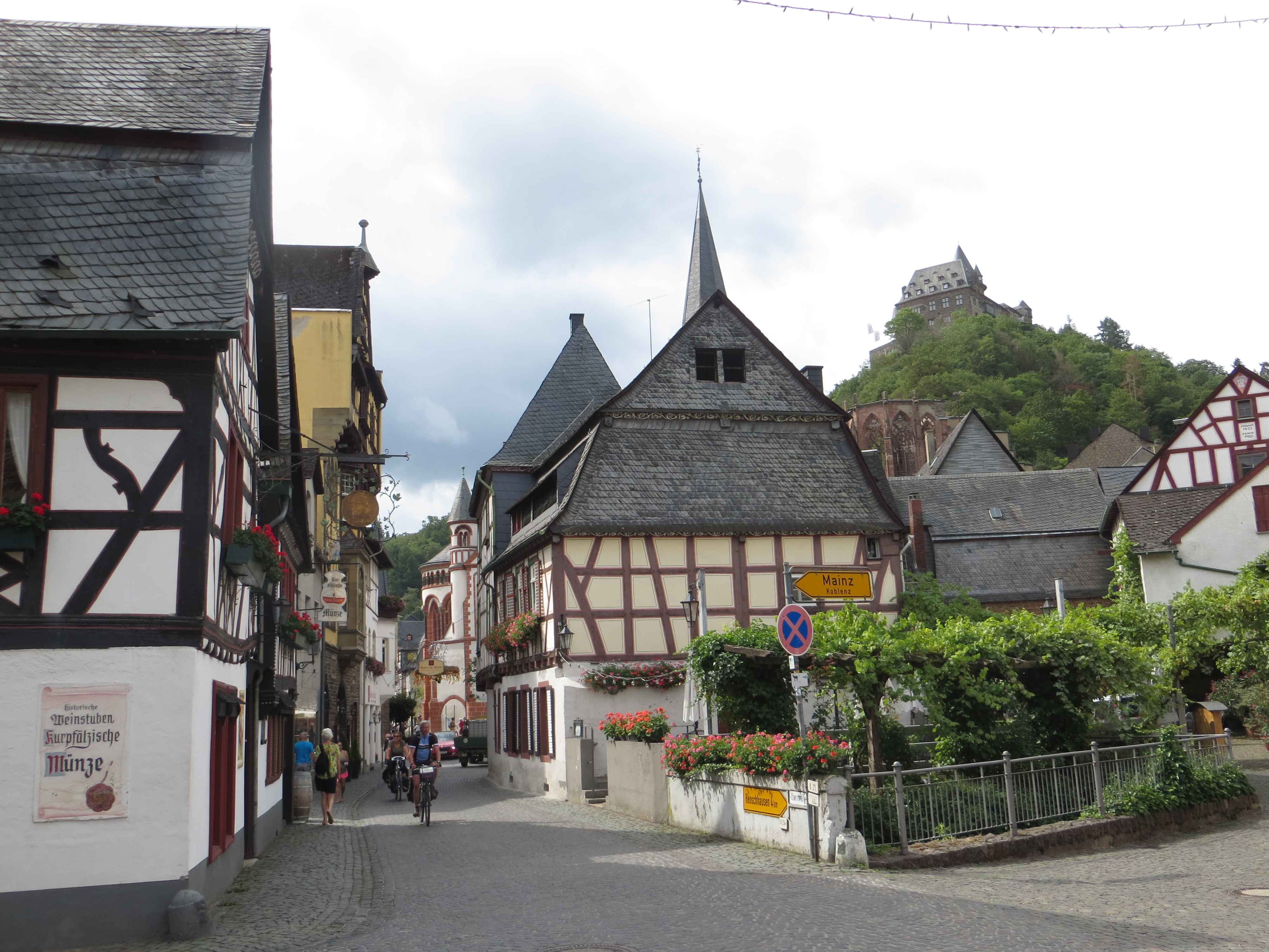 Old city in Bacharach